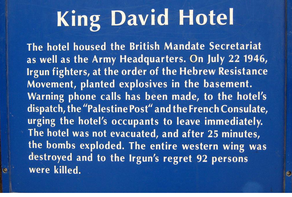 Commemoration sign of the bombing on July 1946, displayed in front of the King David Hotel in Jerusalem, Israel.